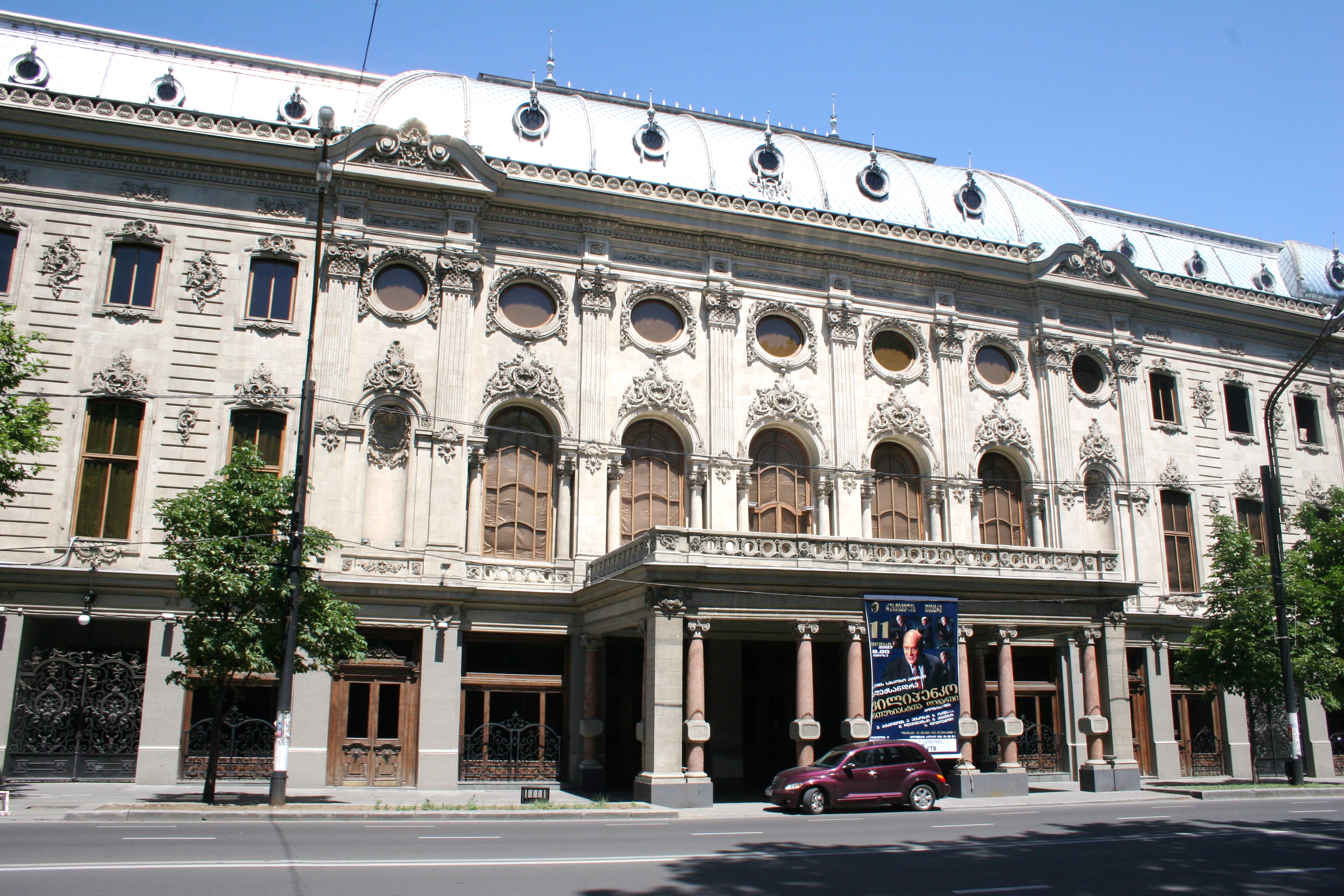 Rustaveli Theatre Facade, Tbilisi